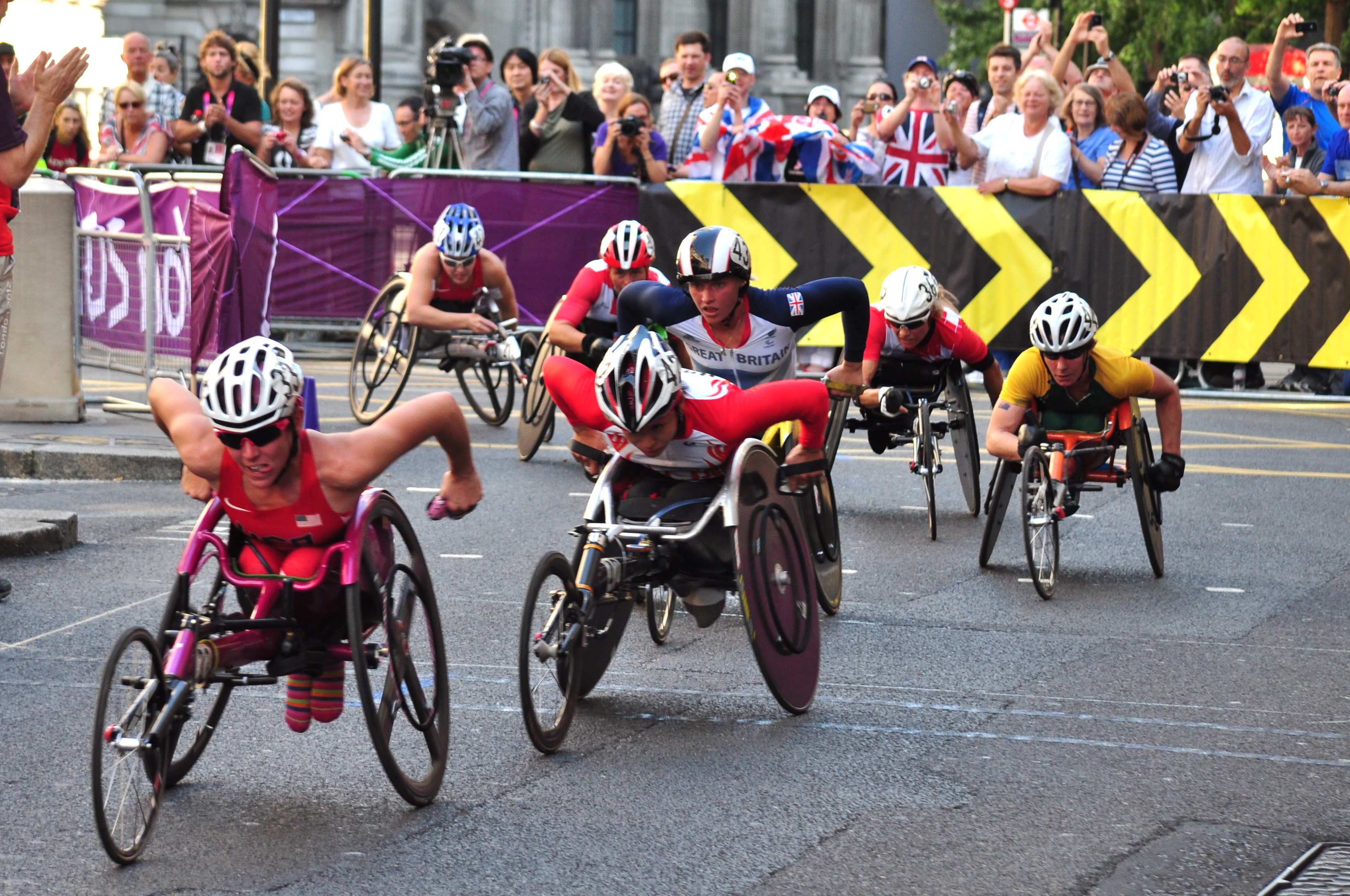 London 2012 Paralympic T54 marathon